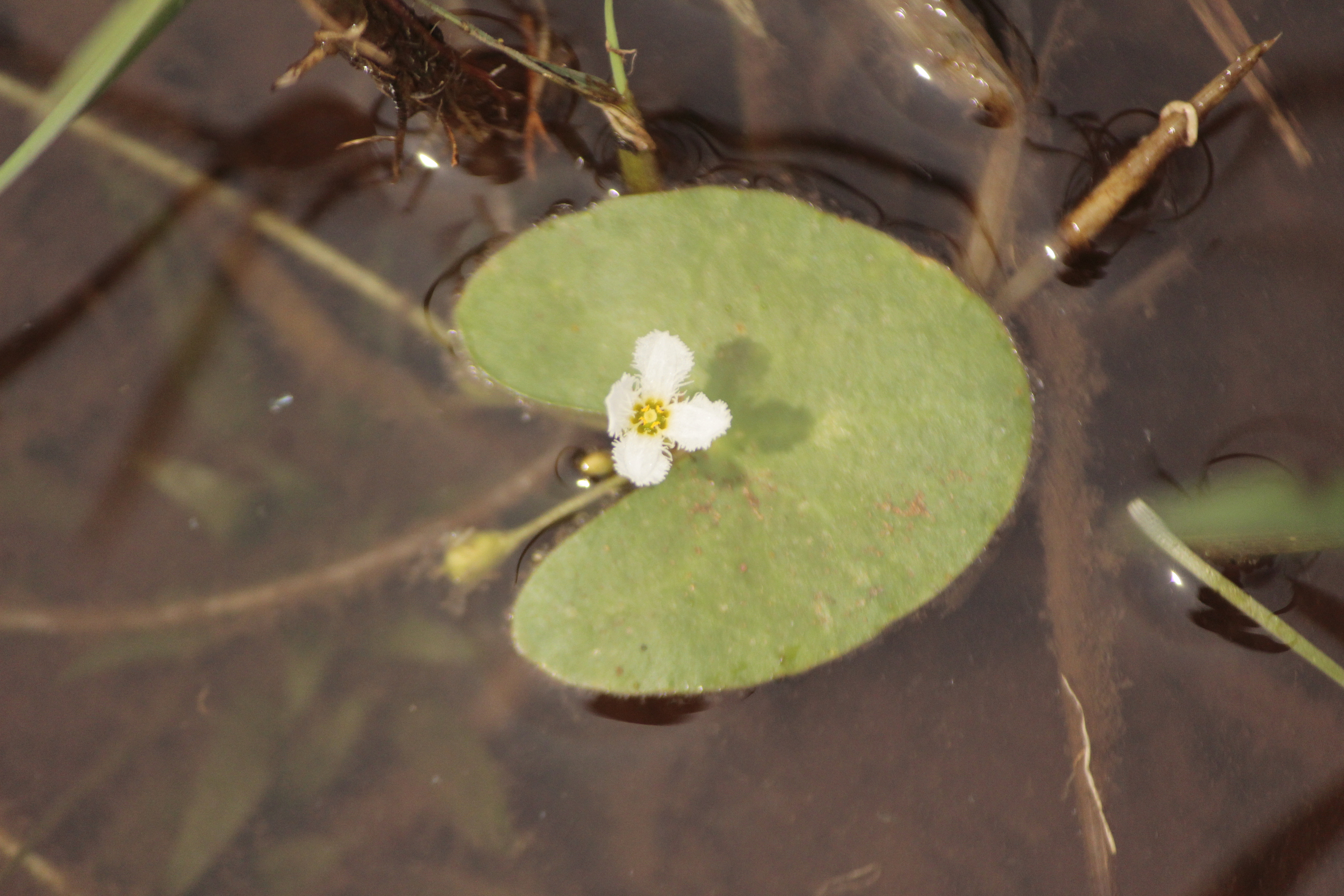 A Nymphoides species described from laterite pond of Kasargod district of Kerala state, India